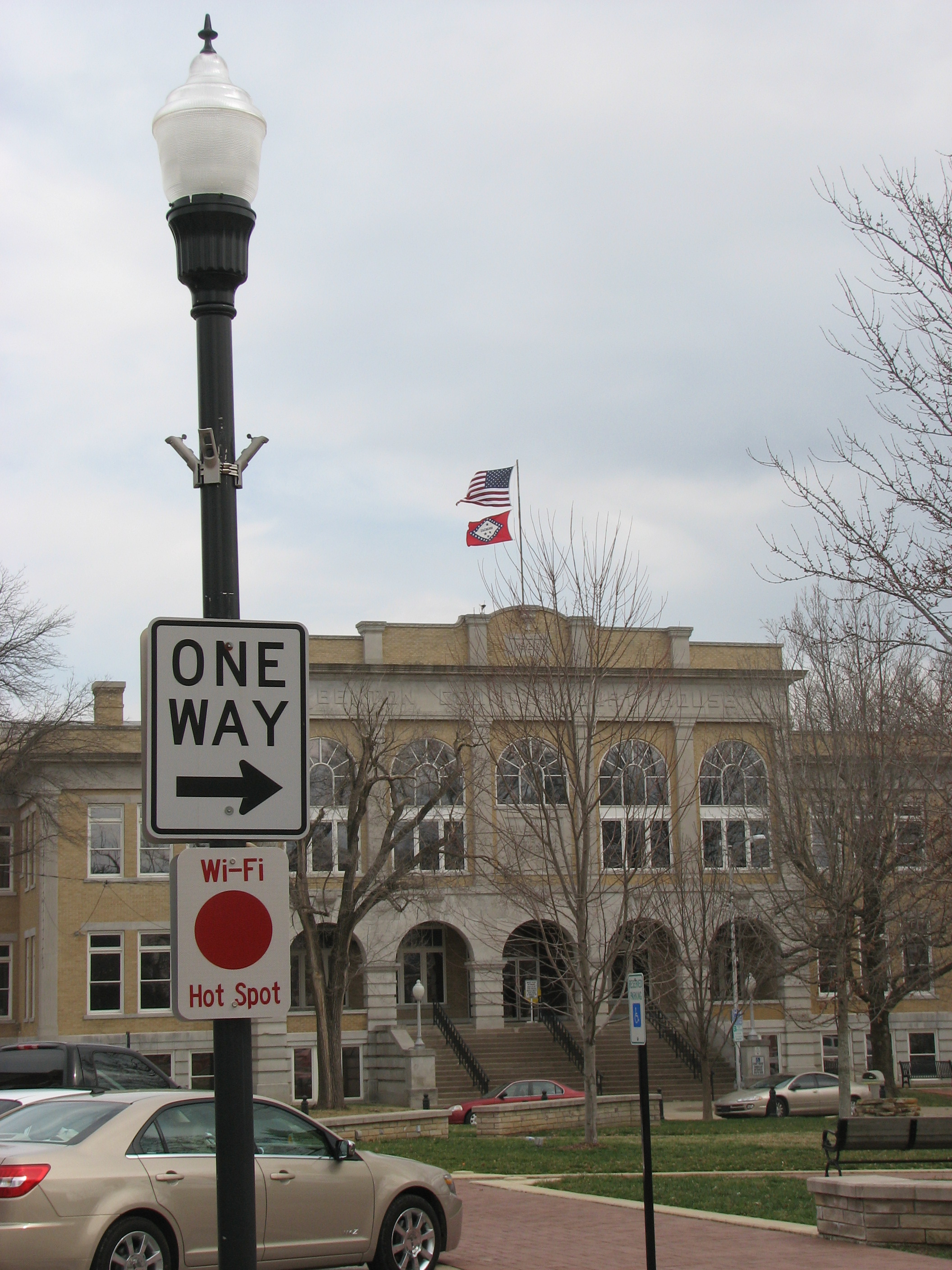 Front of the Benton County Courthouse, located at 106 SE. A Street in Bentonville, Arkansas, United States. Built in 1928, it is listed on the National Register of Historic Places.